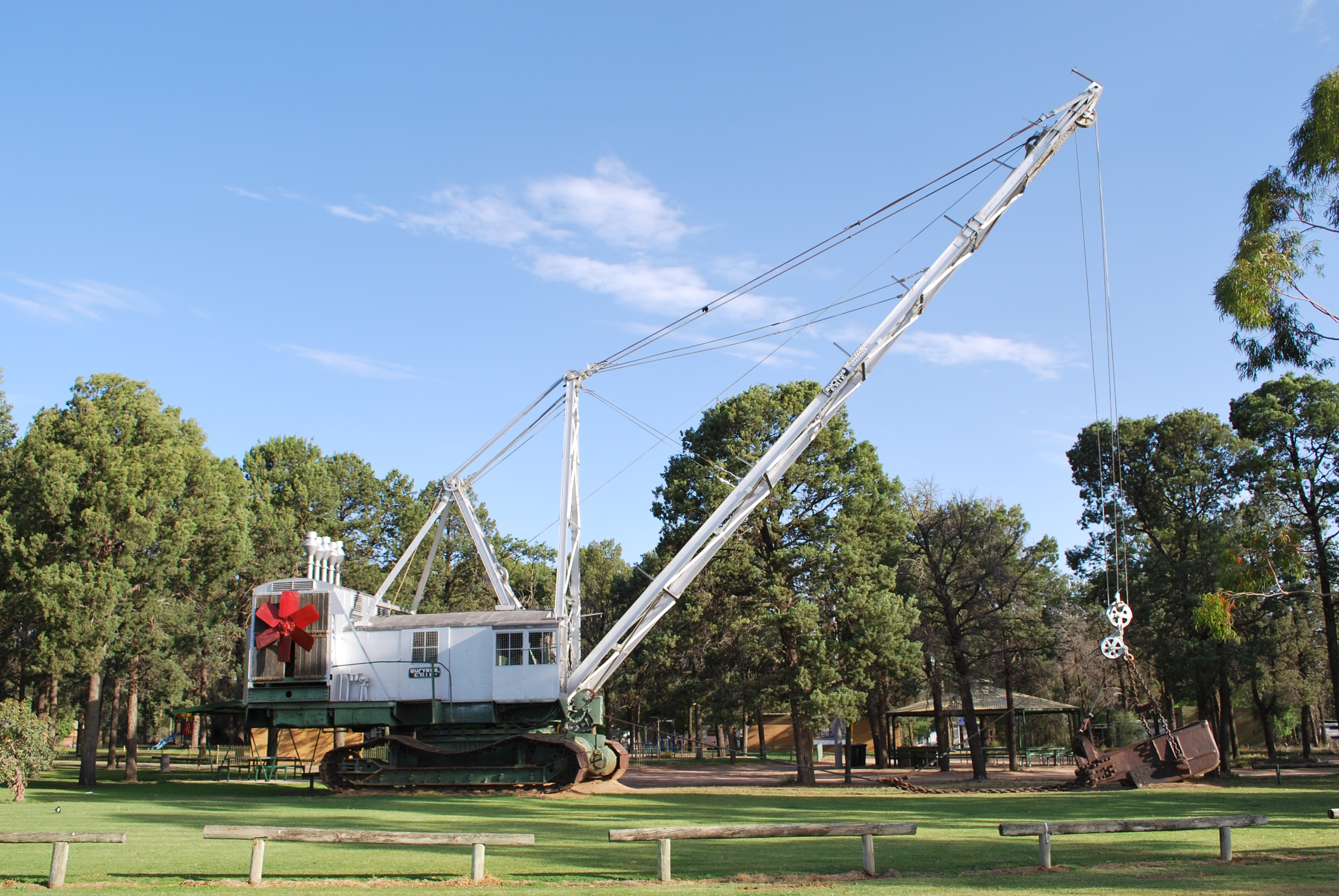 Dragline excavator at Coleambally, New South Wales